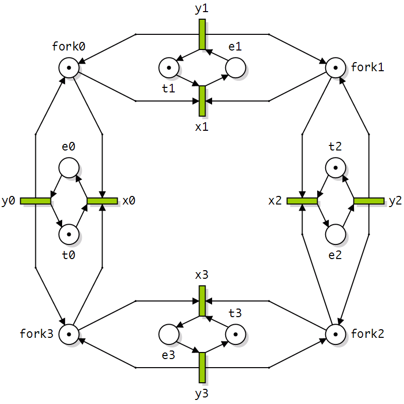 A Petri net model of the dining philosophers problem, with 4 philosophers.